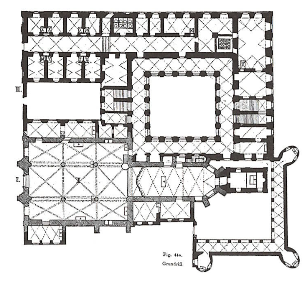 Plan of dominican convent in Jihlava